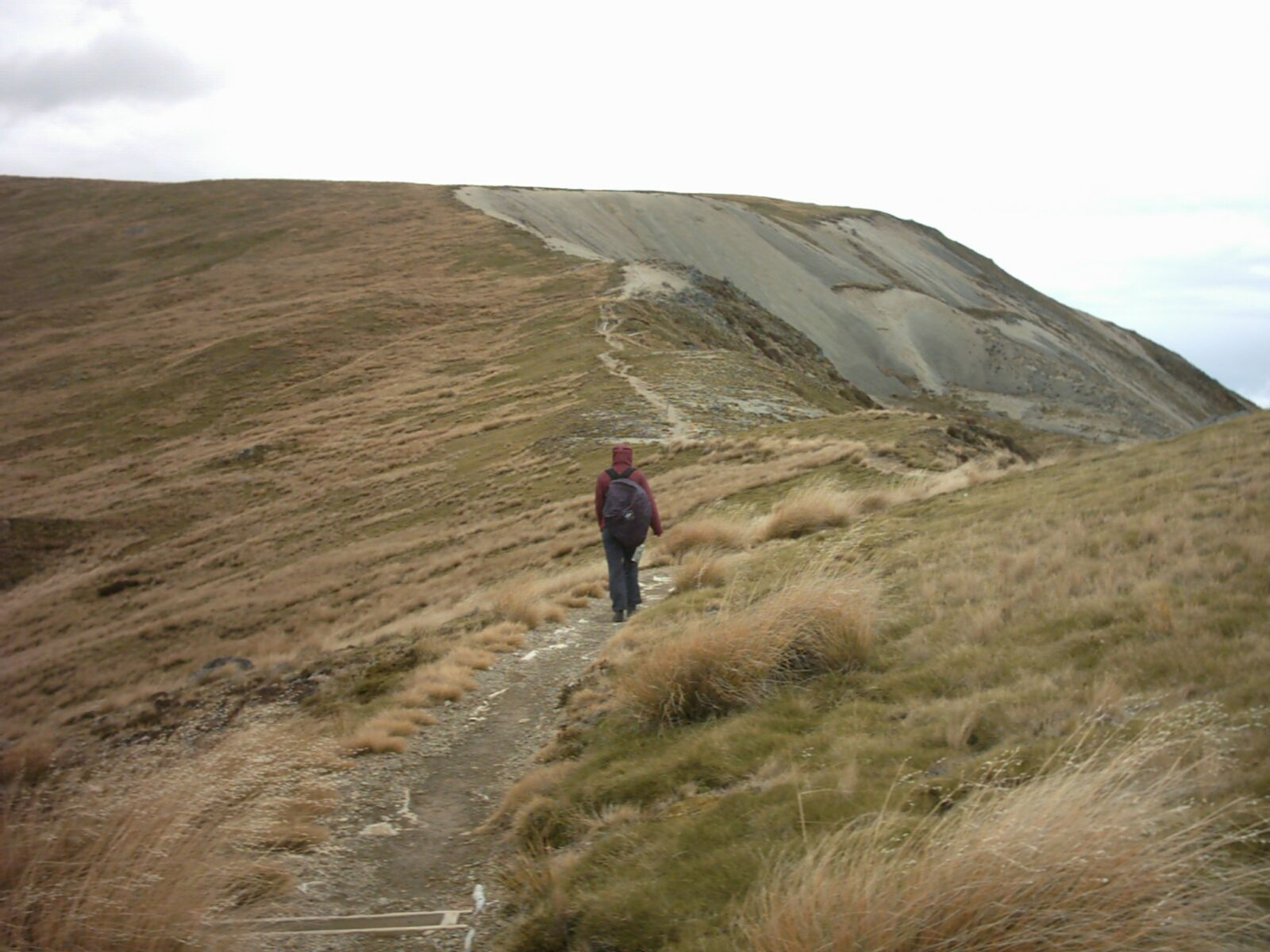 A track leading up the mountain, above the tree line, south and west of Saint Arnaud, New Zealand.